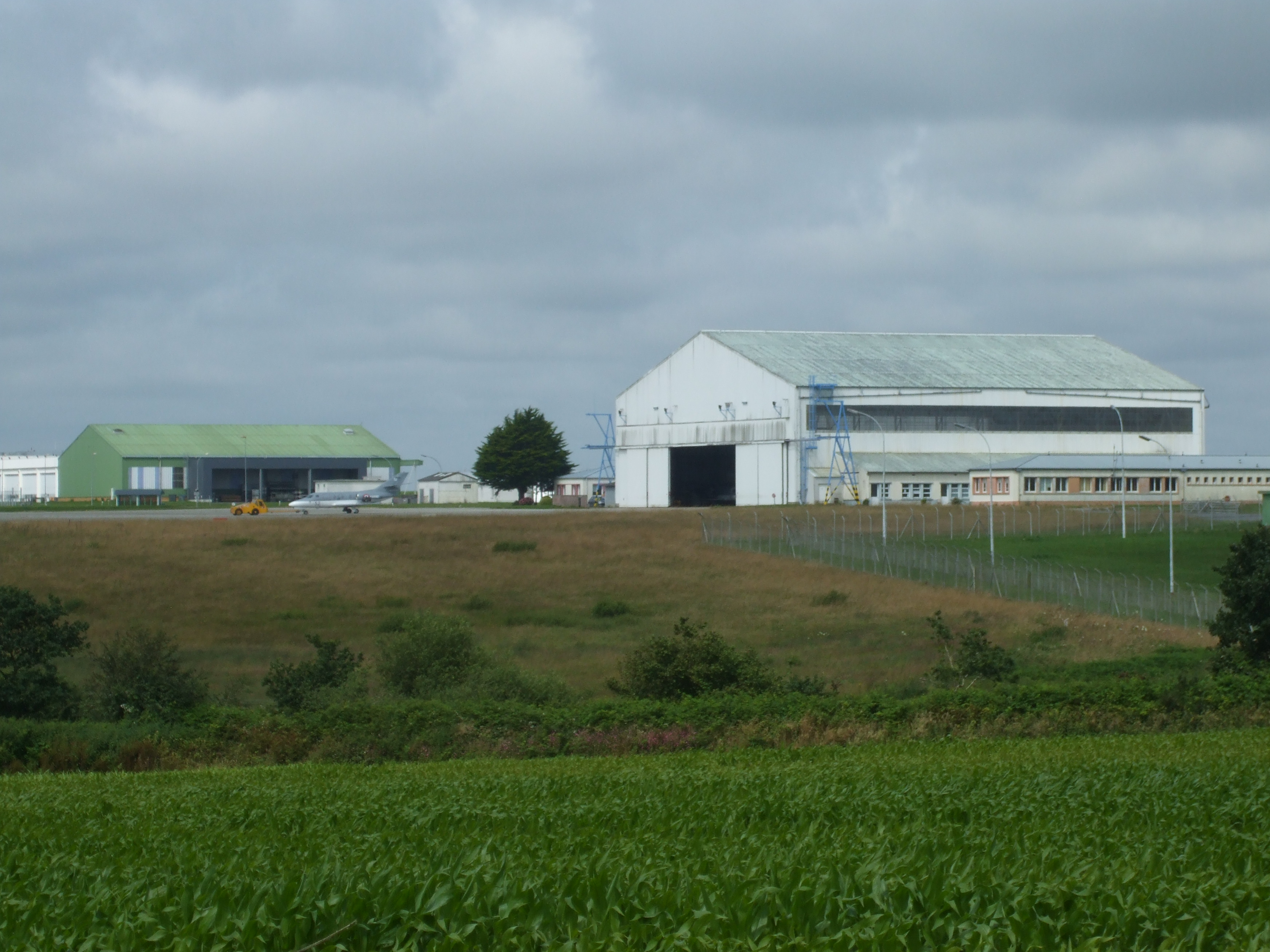 A Dassault Falcon 10M of Escadrille 57S is towed from the eastern apron of the French naval air station at Landivisiau in Brittany region